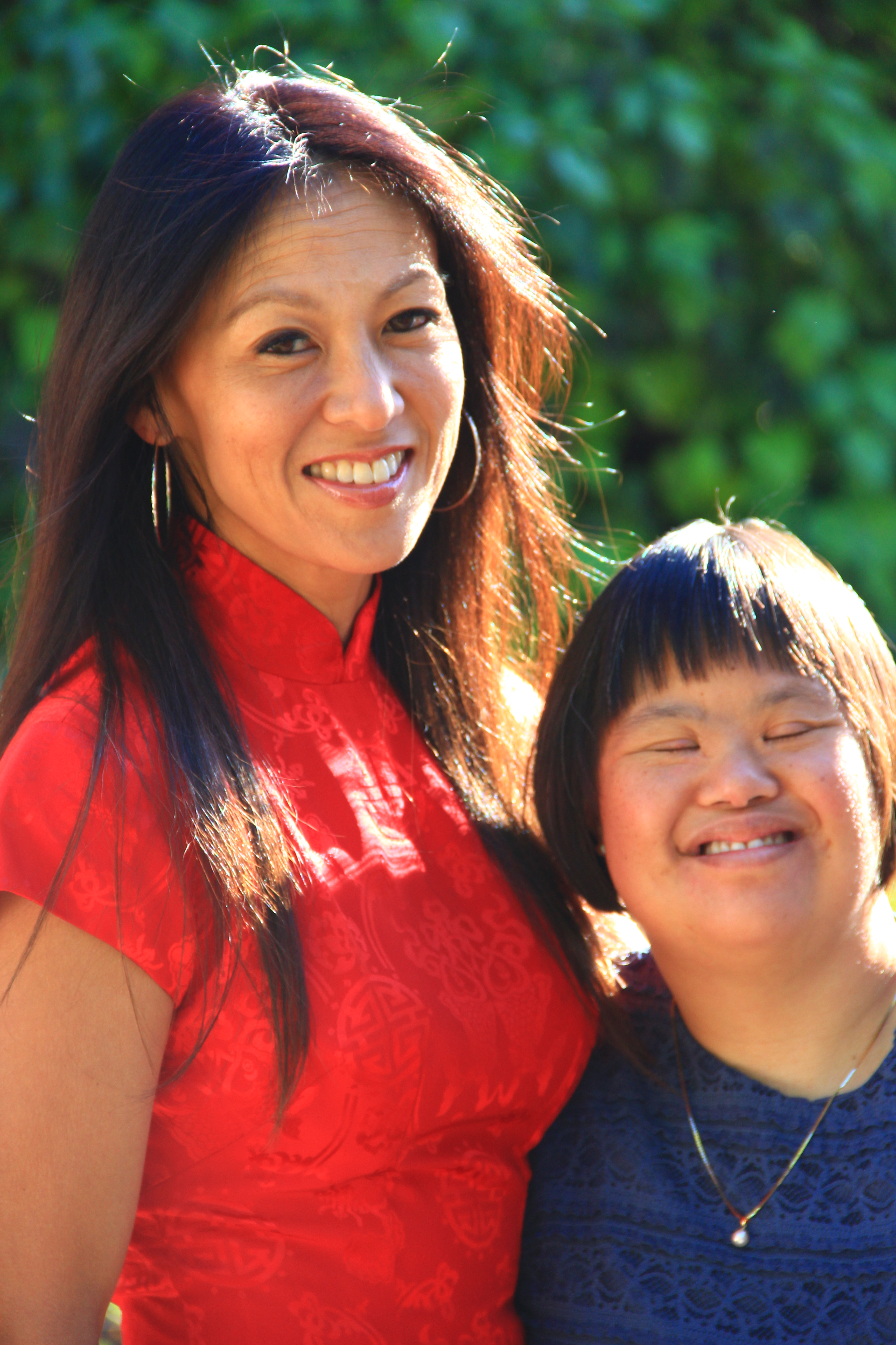 Amy Chua and her sister Cynthia in Palo Alto on August 7, 2011